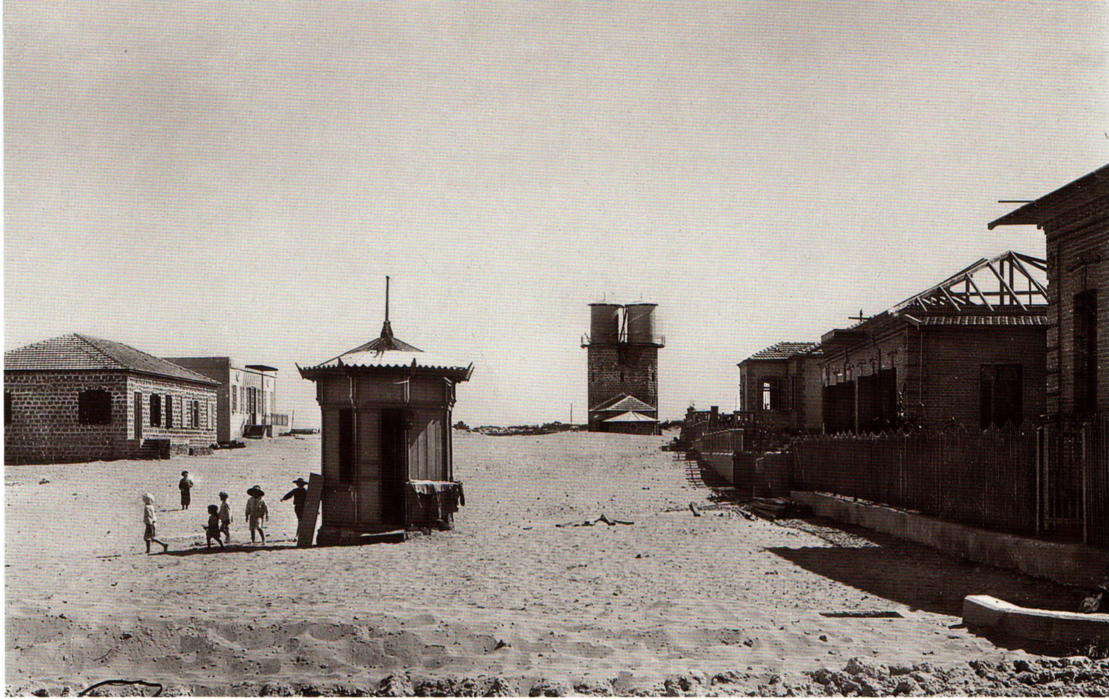 The first Kiosk in Tel Aviv